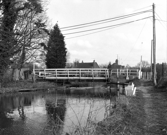 Shenfield (or Sheffield) swing bridge, Kennet and Avon Canal Sometimes also referred to as Theale Swing Bridge.